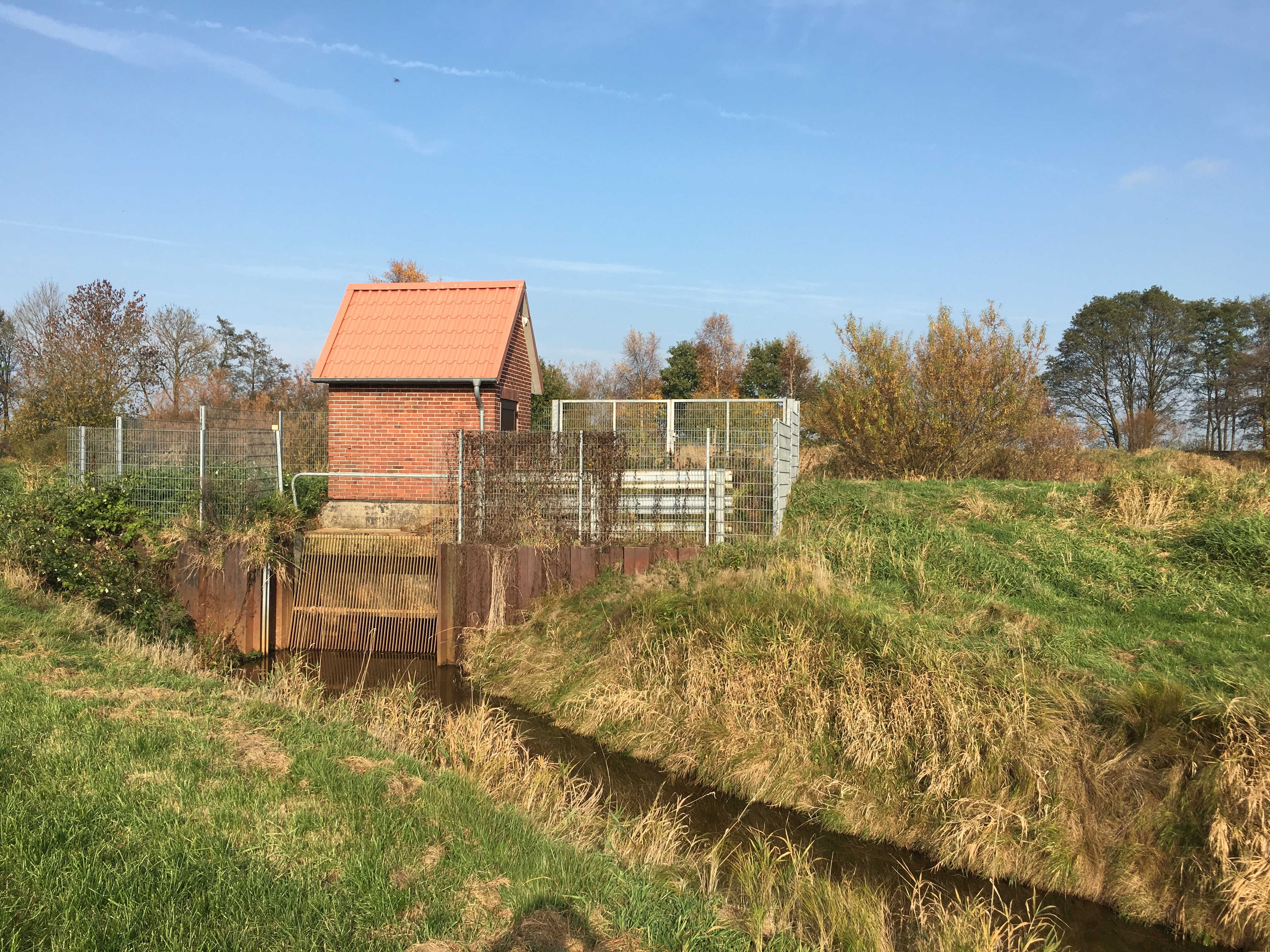 Das Schöpfwerk an der Mündung des Brandmoorgrabens in die Horsterbeck. Der Brandmoorgraben bildet die Grenze zwischen Burweg (Westufer, hier links) und Himmelpforten (Ostufer, hier rechts)